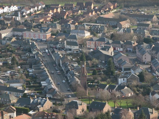 Ochil Street, Tillicoultry Viewed from the path above the Mill Glen.